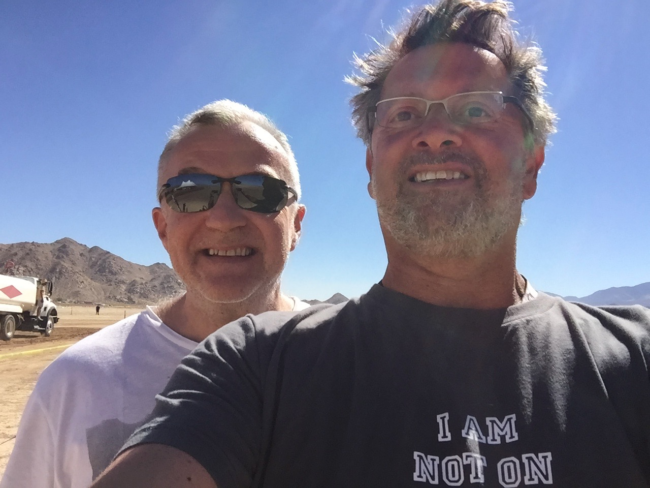 1107 was part of the reported $3.2 million shoot for the opening scene of the first episode of The Grand Tour. "The Holy Trinity" opening sequence for The Grand Tour (TV series) filmed on in the Lucerne Valley, California on 24 September 2016.